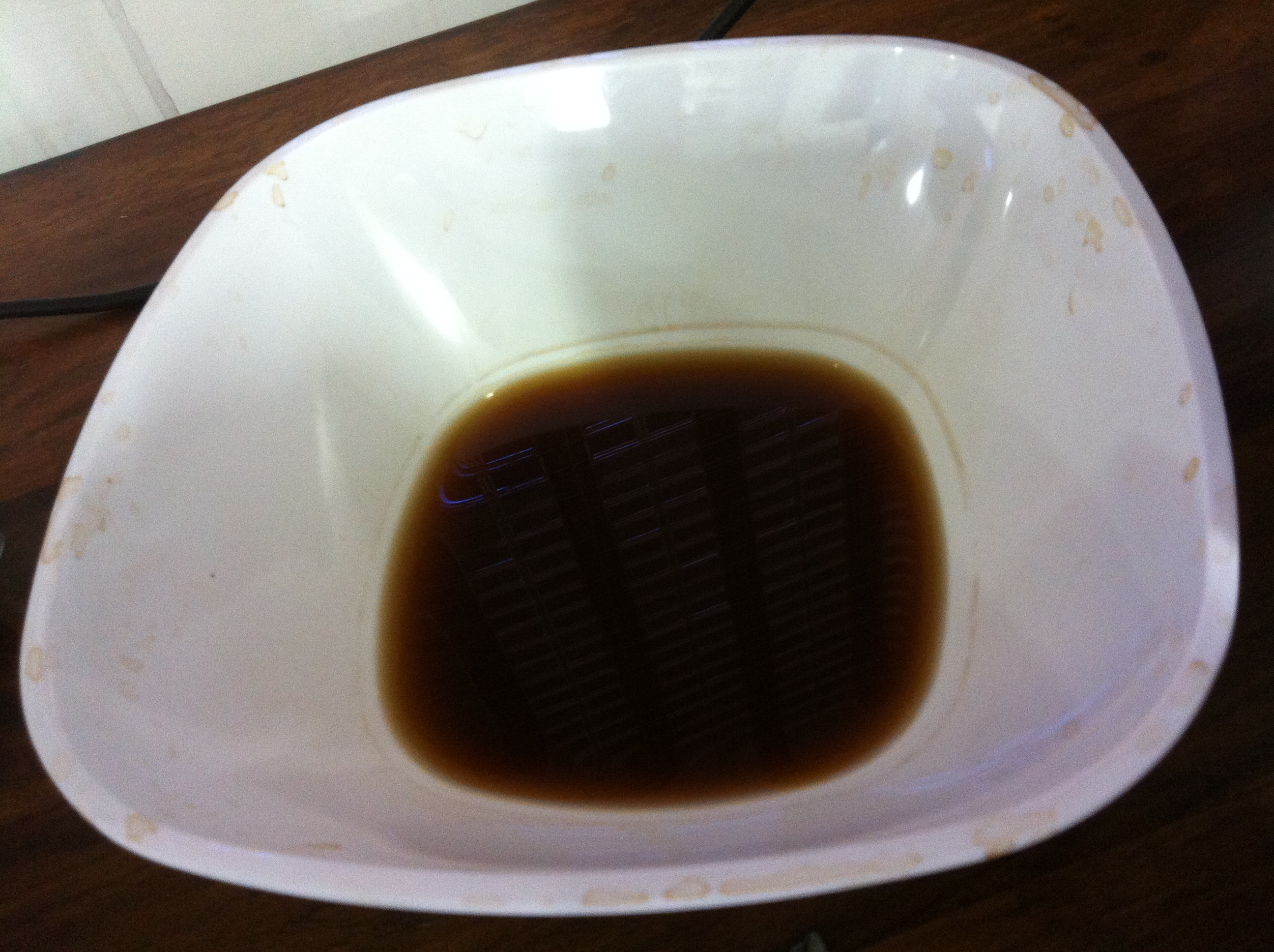 Coffee decant. This media file is uploaded with Odia loves Wikipedia